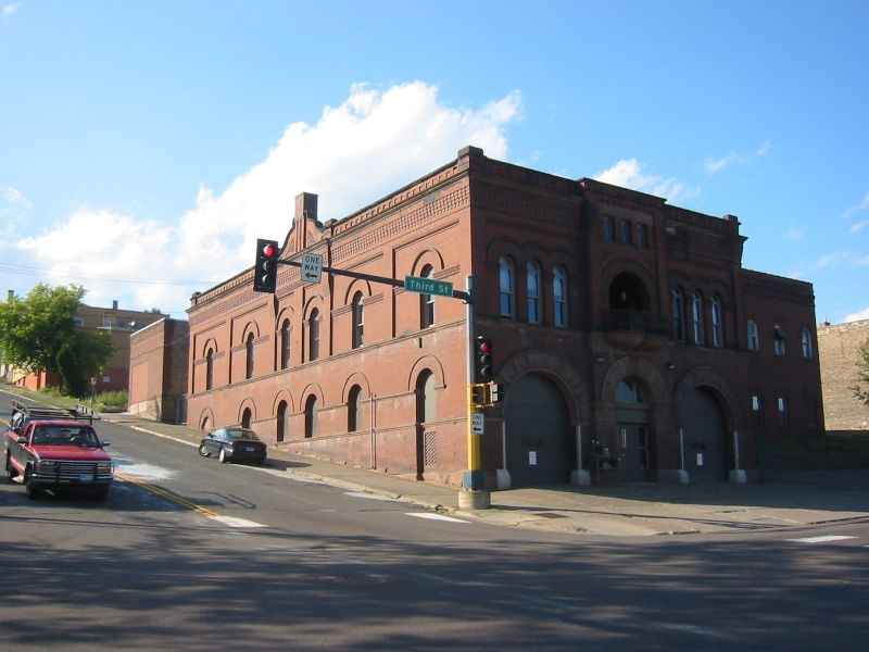 author:Todd Murray. Used with permission. Downloaded from: [1]